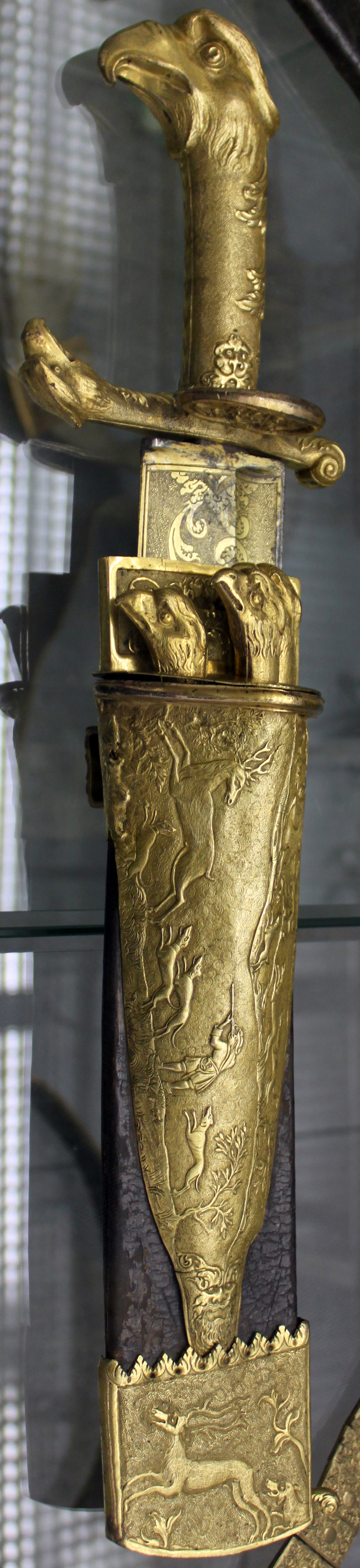 Hunting knife set, 1700; Germanic National Museum in Nuremberg